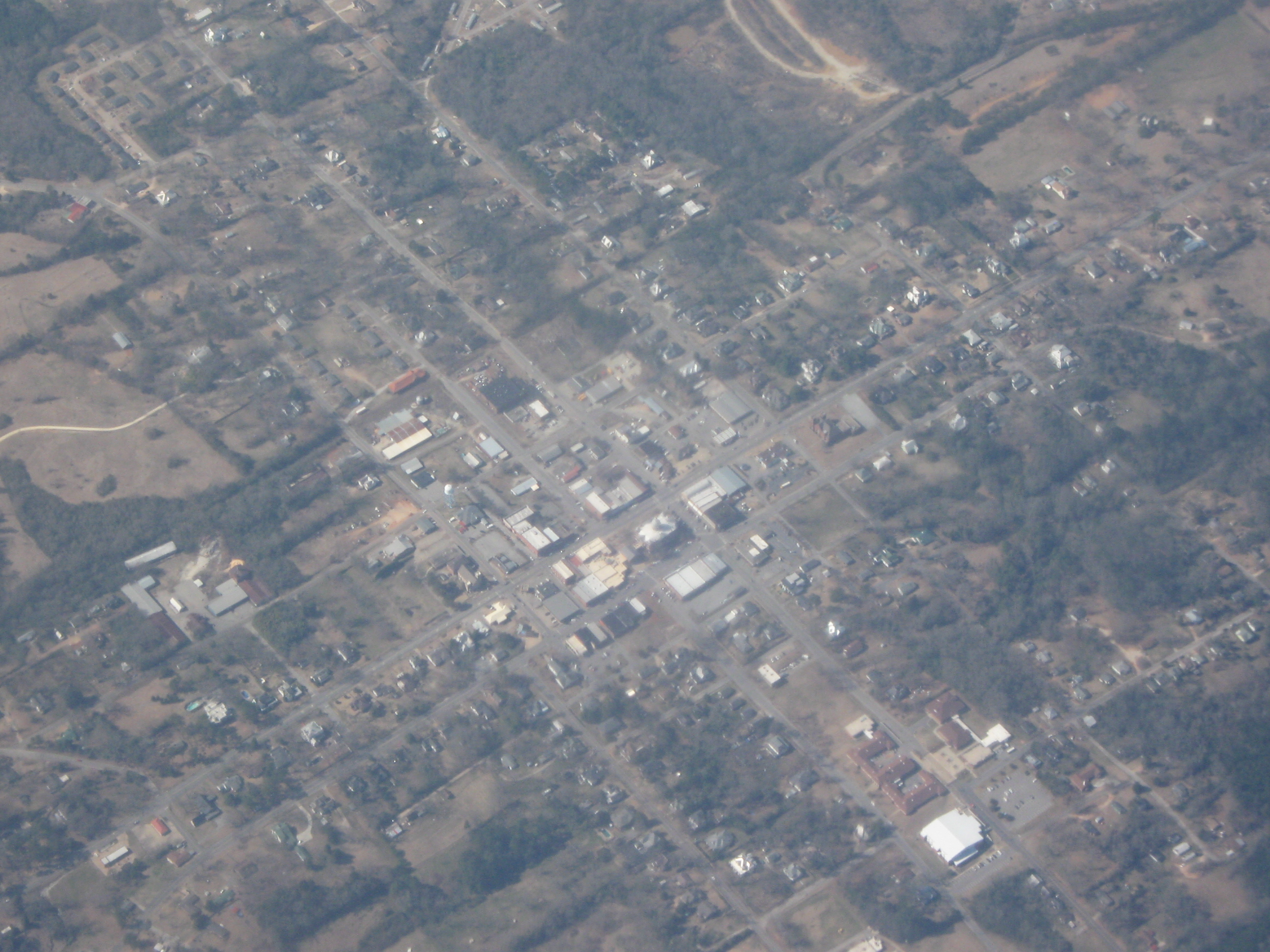 Downtown LaFayette, Alabama as viewed from Delta Air Lines Canadair Regional Jet flight between Birmingham-Shuttleworth International Airport and Hartsfield-Jackson International Airport.